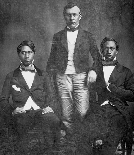 Lot Kamehameha, Dr. Gerrit Judd (standing), and Alexander Liholiho. Photograph taken during their trip to the United States and Europe.